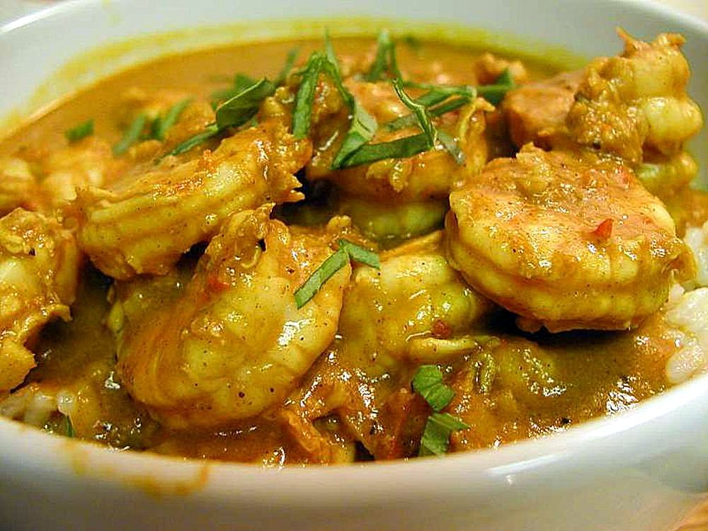 Image title: Shrimp curry on plate Image from Public domain images website